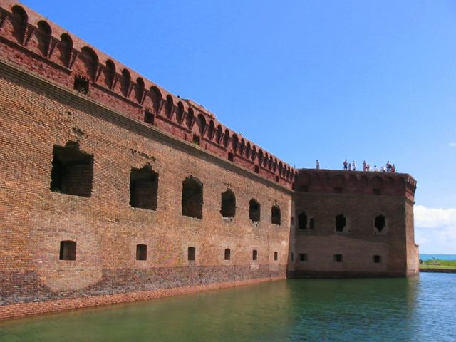 Ramparts of Fort Jefferson, the Dry Tortugas